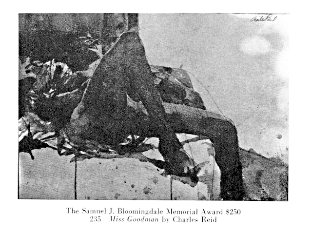 Watercolor by Charles Reid American Painter